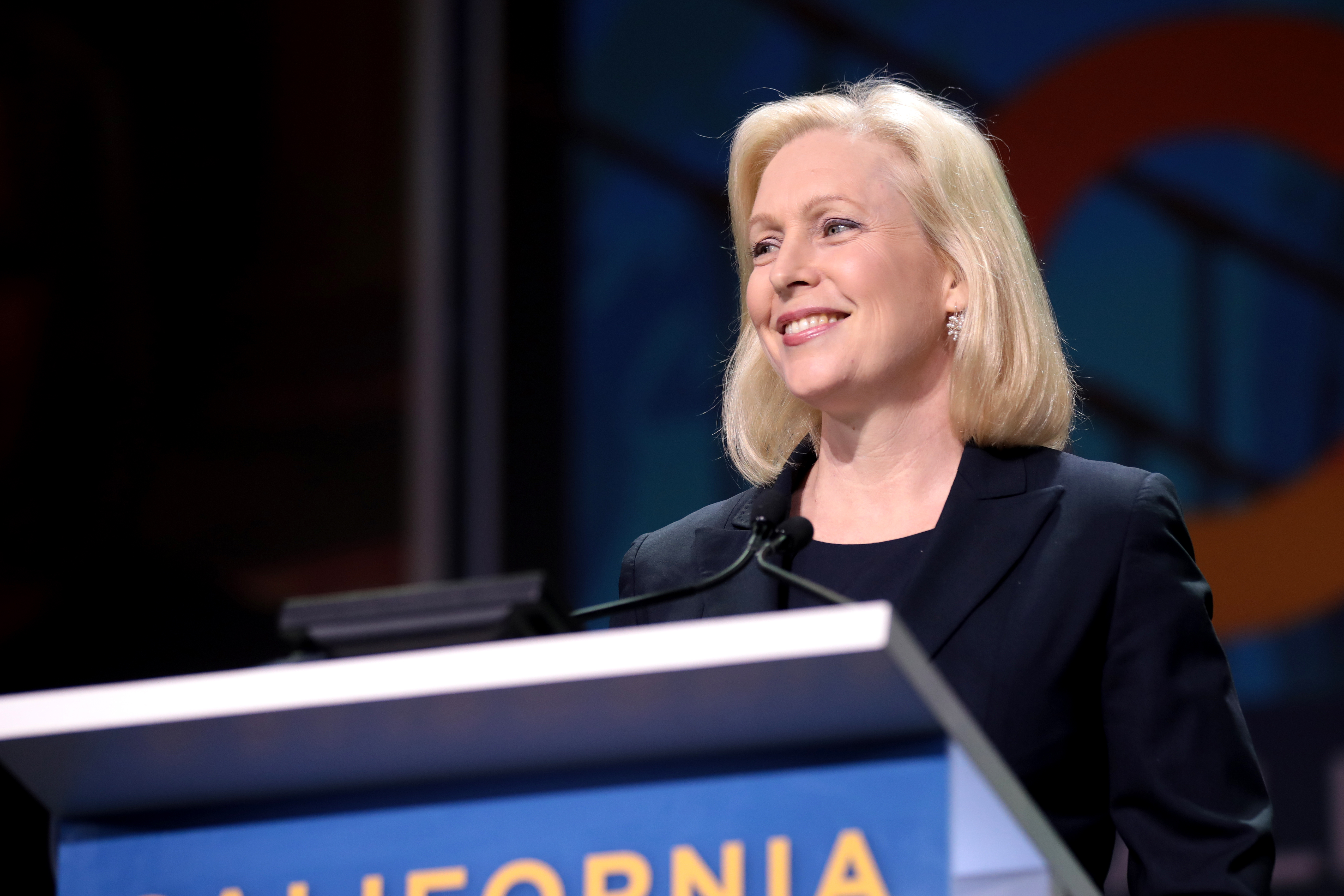 U.S. Senator Kirsten Gillibrand speaking with attendees at the 2019 California Democratic Party State Convention at the George R. Moscone Convention Center in San Francisco, California.